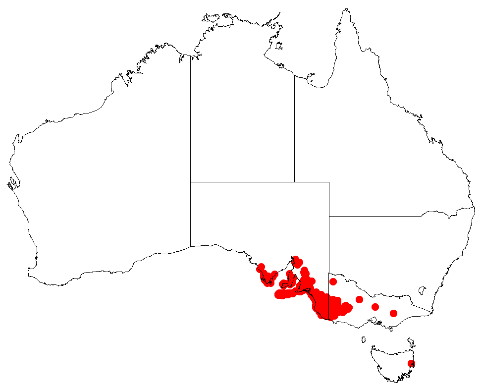 Hakea rugosa Occurrence data downloaded from Australasian Virtual Herbarium on 22 November 2018 using